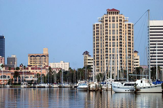 Central Yacht Basin, St. Petersburg, FL. Photo by Ronnie Boone, July 24, 2005.